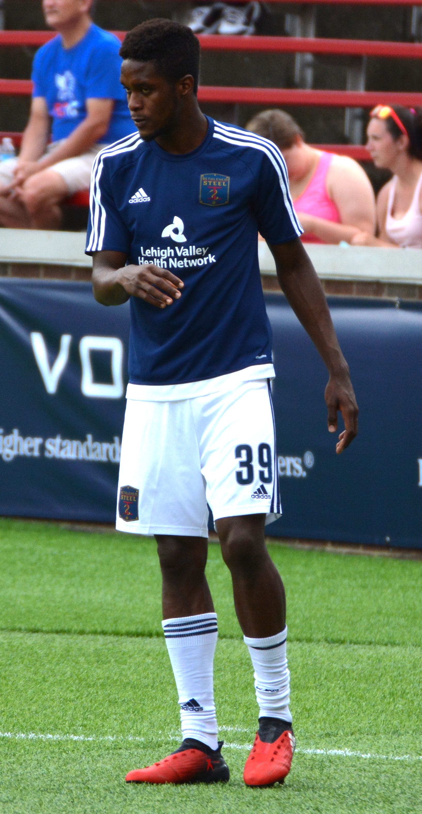 Amoy Brown Taken during a match between FC Cincinnati and Bethlehem Steel FC at Nippert Stadium in Cincinnati, USA on May 20, 2017.